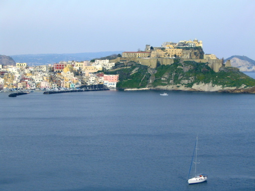 Italy - island of Procida - Little harbour of Corricella. View from Cape Pizzaco. Taken by User:Nathan Hamblen on April 11, 2004.